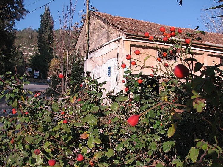 First building constructed in Kiryat Anavim (dairy barn) by the pioneers.